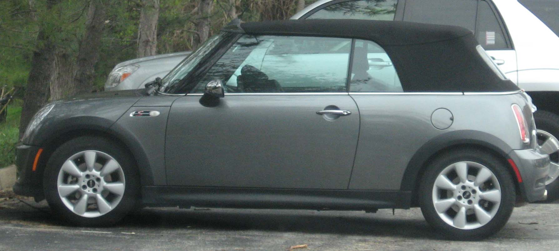 Mini CooperS photographed in USA.